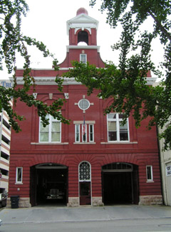 This is a picture of Roanoke's Historic Fire Station #1. The firehouse will be 100 years old in 2007 and still operating. Photo by Rhett Fleitz 2005.